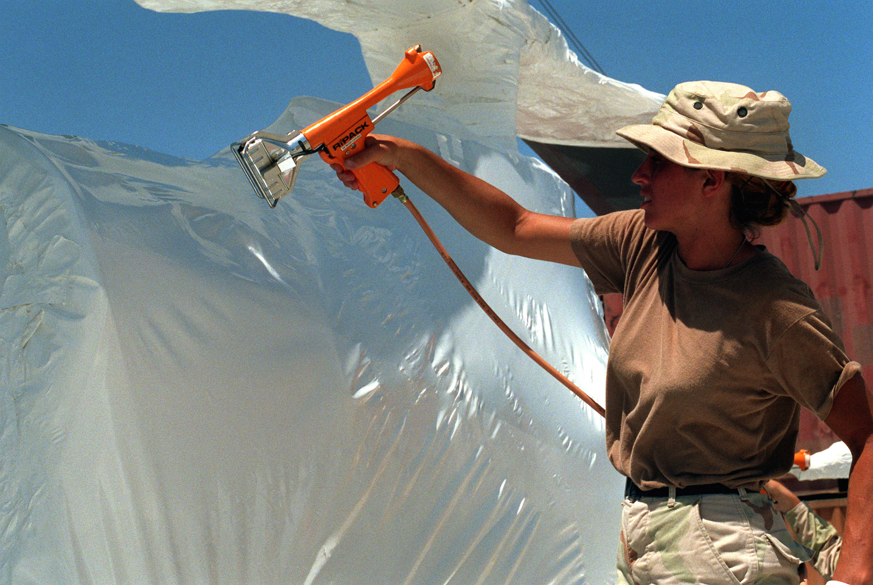 A soldier from the 4th Battalion, 4th Aviation Regiment, Fort Carson, Colo., seals glossy white shrink wrap material with a 1,700-degree heat blower gun. This process of protecting equipment from environmental damage takes up to three hours to seal up a helicopter. The plastic shrink wrap film, used since the 1980's to protect equipment, is expected to save the Army millions of dollars in equipment losses due to corrosion.